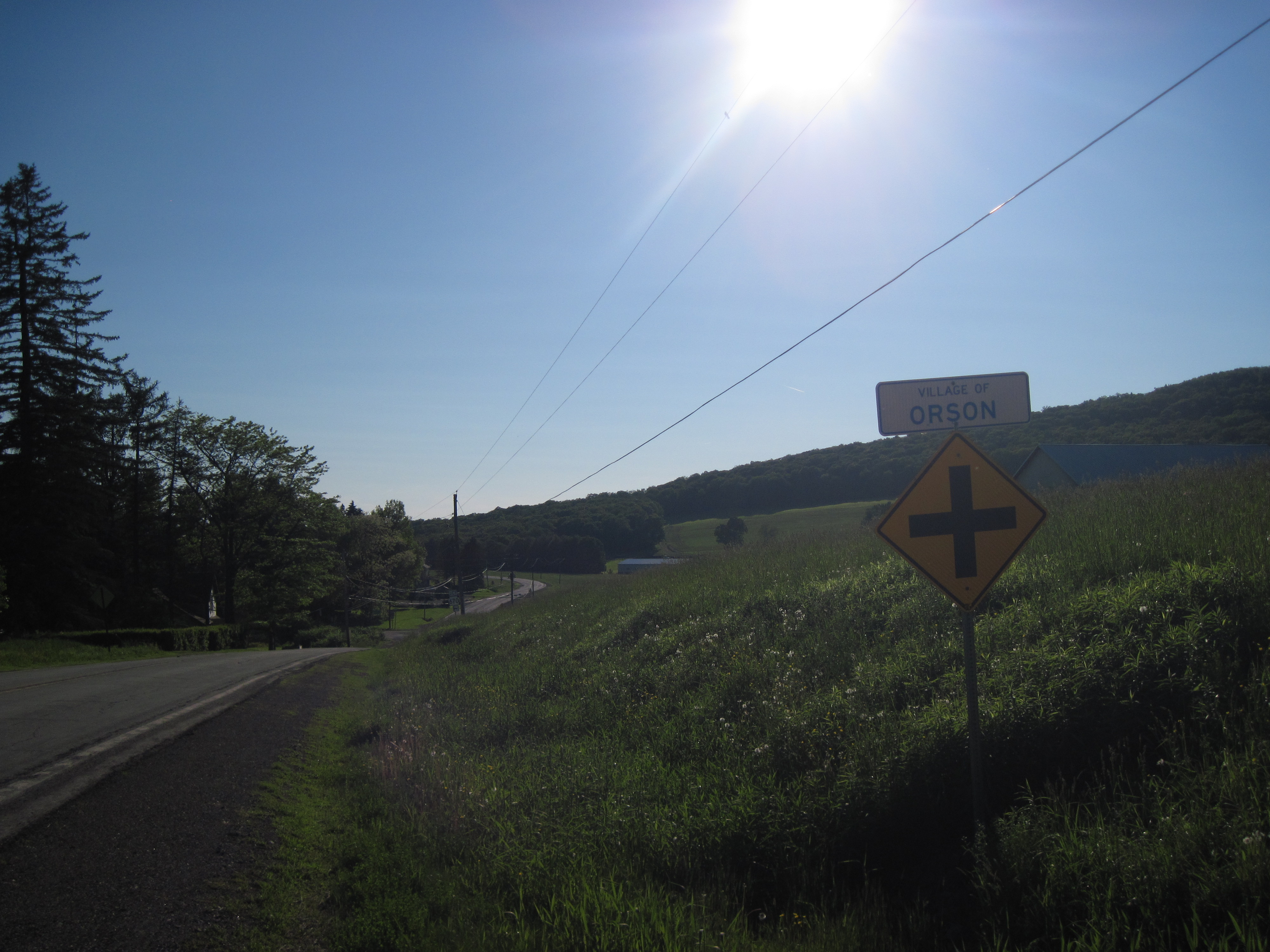 A view of the Village of Orson, Pennsylvania, from a spot just east of the intersection of PA-370 and PA-670, including the Pennsylvania Department of Transportation (PennDOT) sign identifying the village as such.